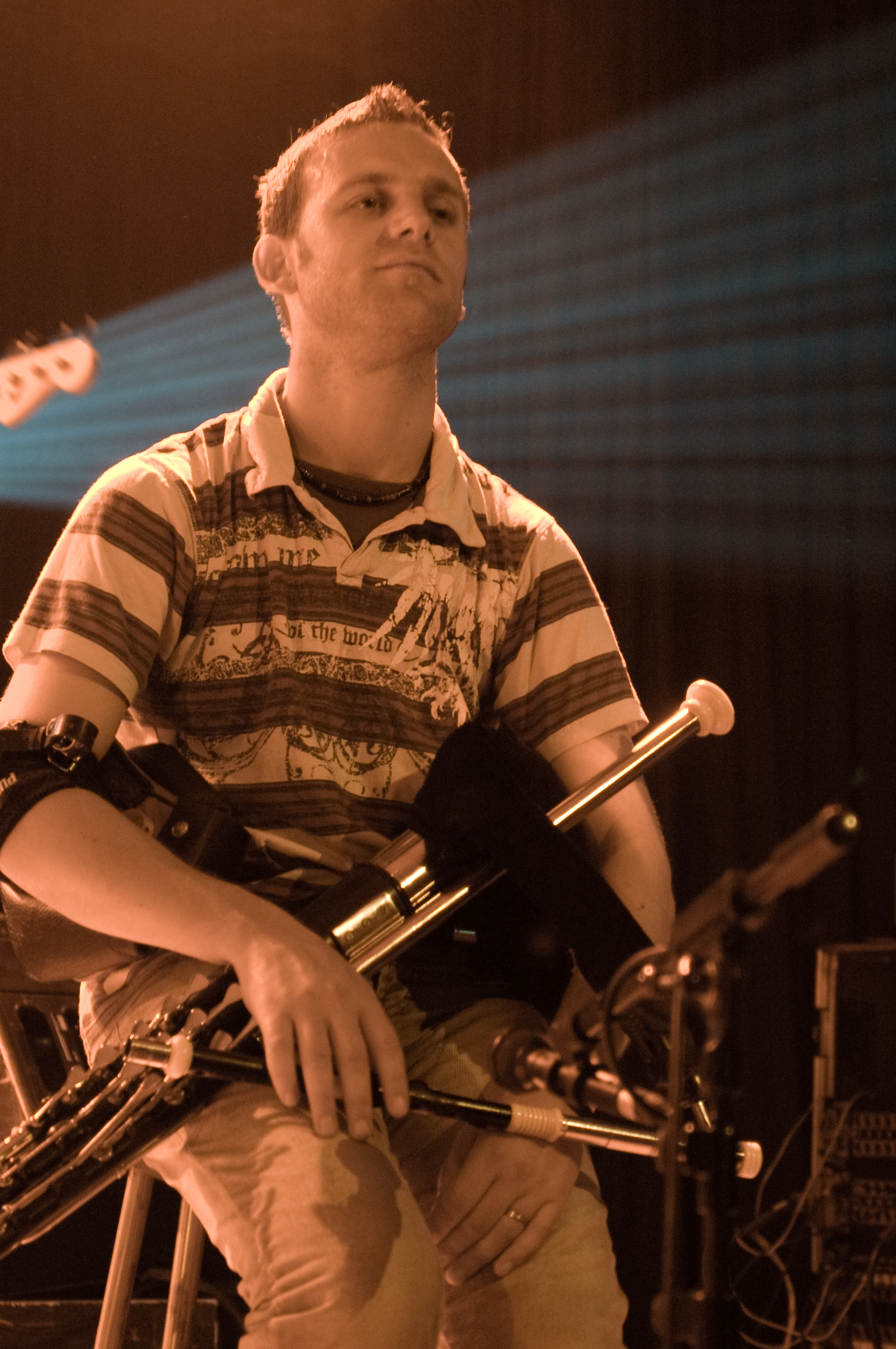 Soldat Louis' show in Monthey. The making of this document was supported by Wikimedia CH. (Submit your project!) For all the files concerned, please see the category Supported by Wikimedia CH.